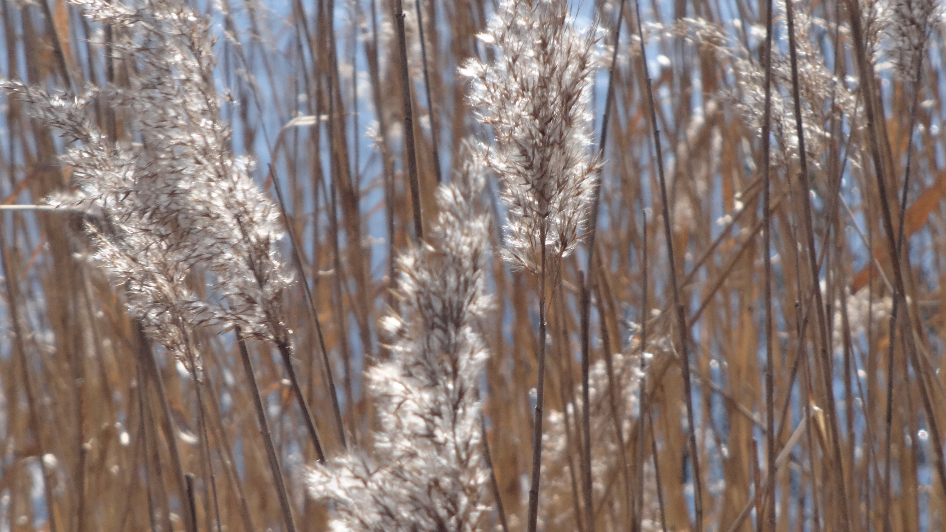 Phragmites near Liabiazhy lake in Minsk city (Belarus), 22 March 2015 AD